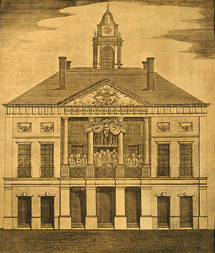 Federal Hall, The Seat of Congress / Peter Lacour delin. ; A. Doolittle sculpt. Front elevation of Federal Hall in New York City, site of George Washington's first inauguration, April 30, 1789, where Chancellor of the State of New York, Robert Livingston, administered the oath of office to George Washington on the balcony. Photograph of 1790 copper engraving in the private collection of Louis Alan Talley, Washington, D.C.